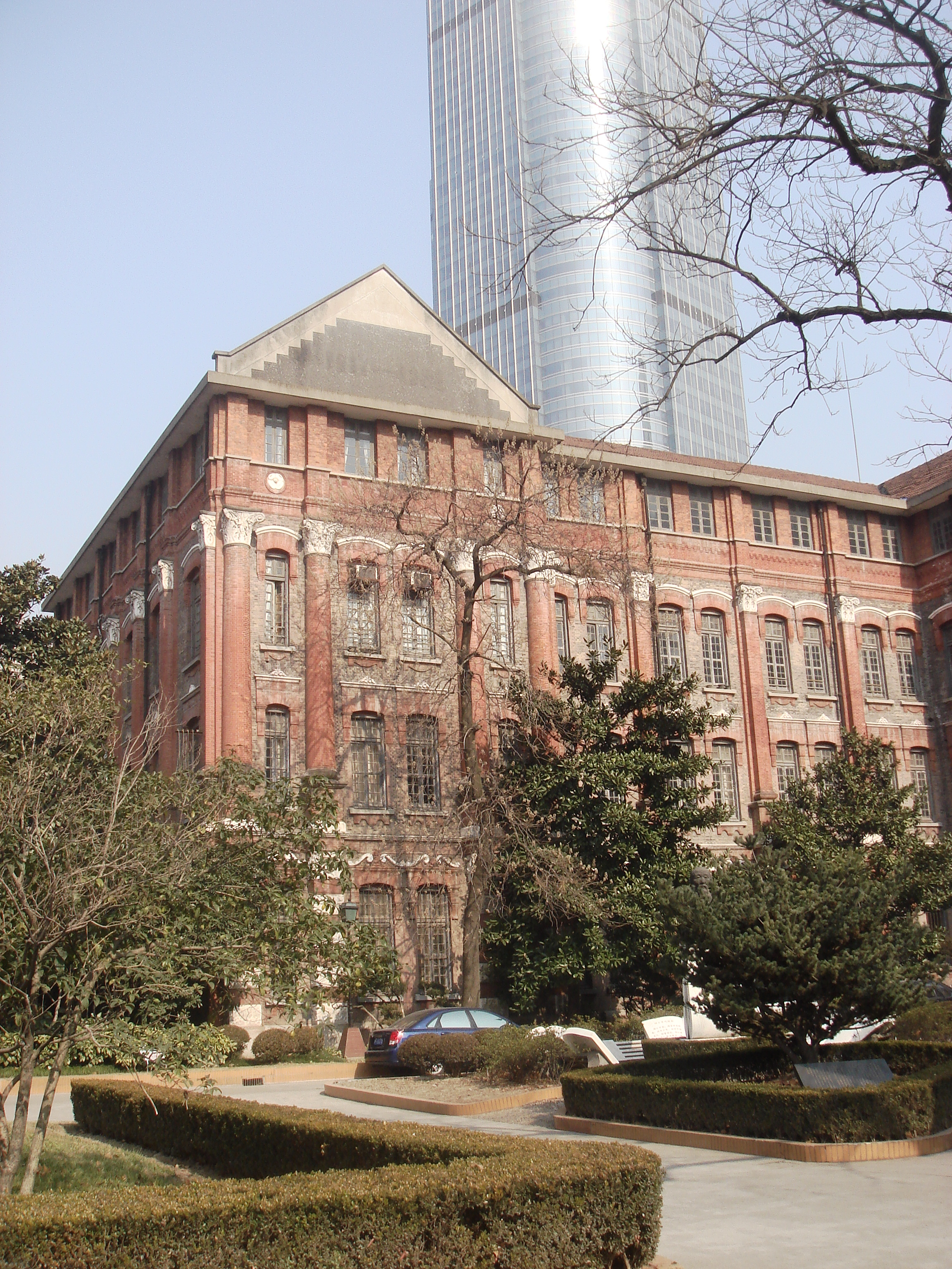 Chongsi Building in Xuhui Middle School, build in 1917.